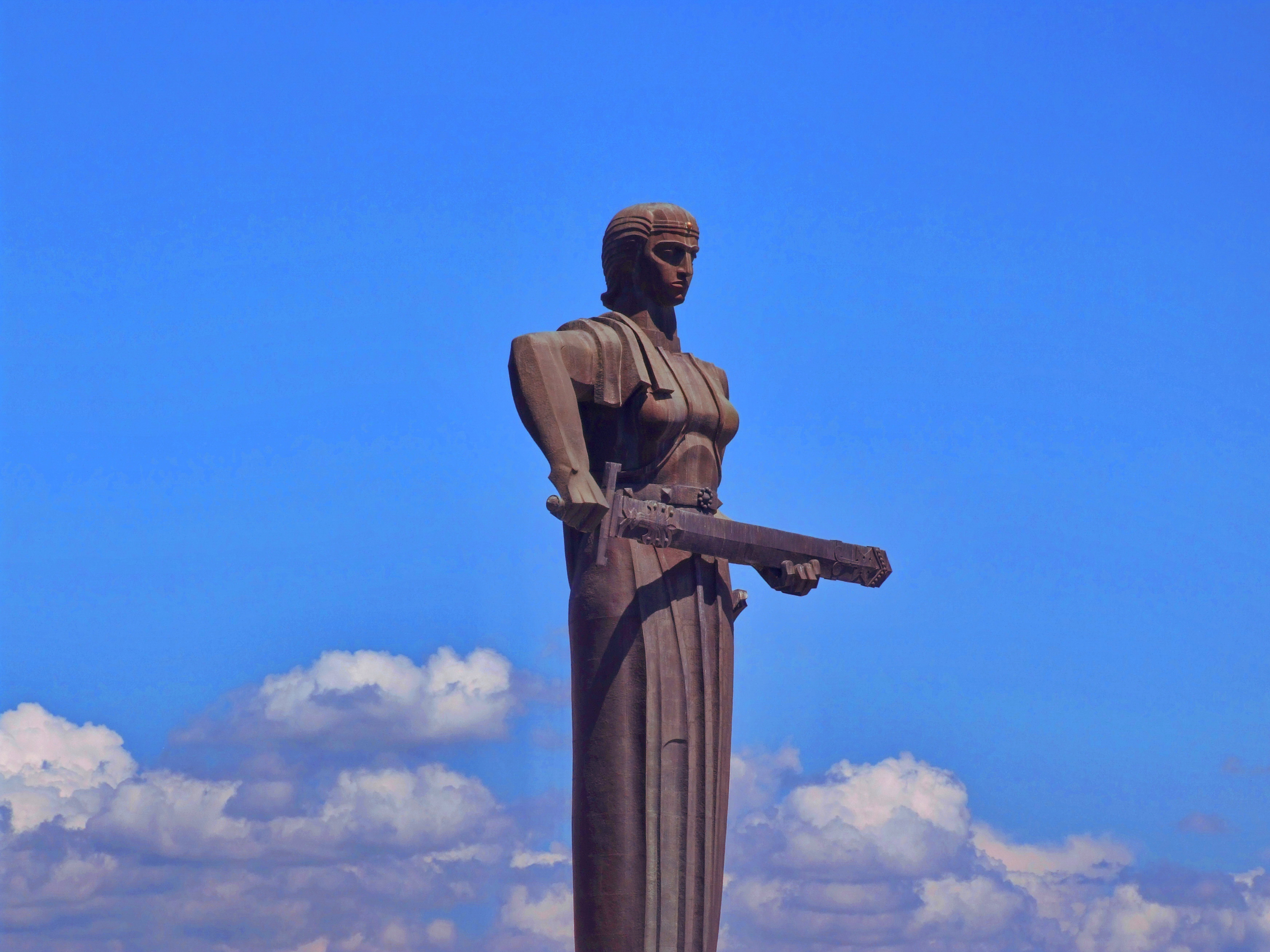 Statue of Mother Armenia, Մայր Հայաստան in Victory Park, Yerevan Sculptor A. Harutyunyan, architect R. Israelyan